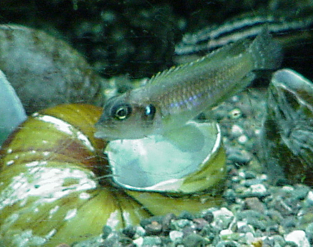 A male Lamprologus Ocellatus in the home aquarium. The Gold Ramshorn snail shell that he lives in can be seen as well.